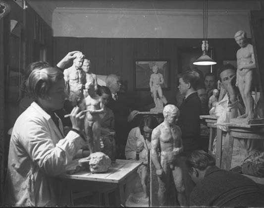 In the sculpture room in a Finnish drawing school in Turku. The teacher Teodor Schalin inspects the student work of a young man standing beneath the lamp. Sculptor education began in the late 1920s, but the education moved permanently in 1967.